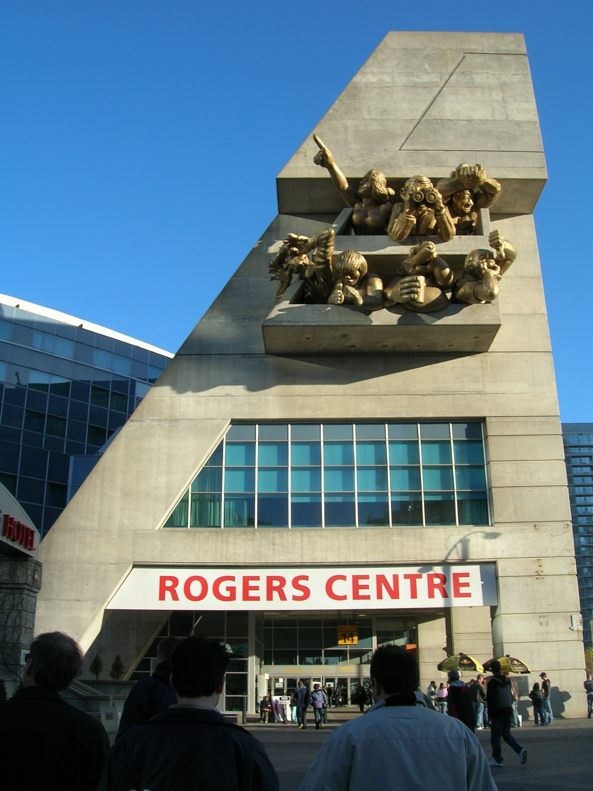 A sculpture adorning the facade of the northwest portion of Rogers Centre. 06:43, 26 June 2006 . . Haaron755 . .1944 x 2592 (872,398 bytes)